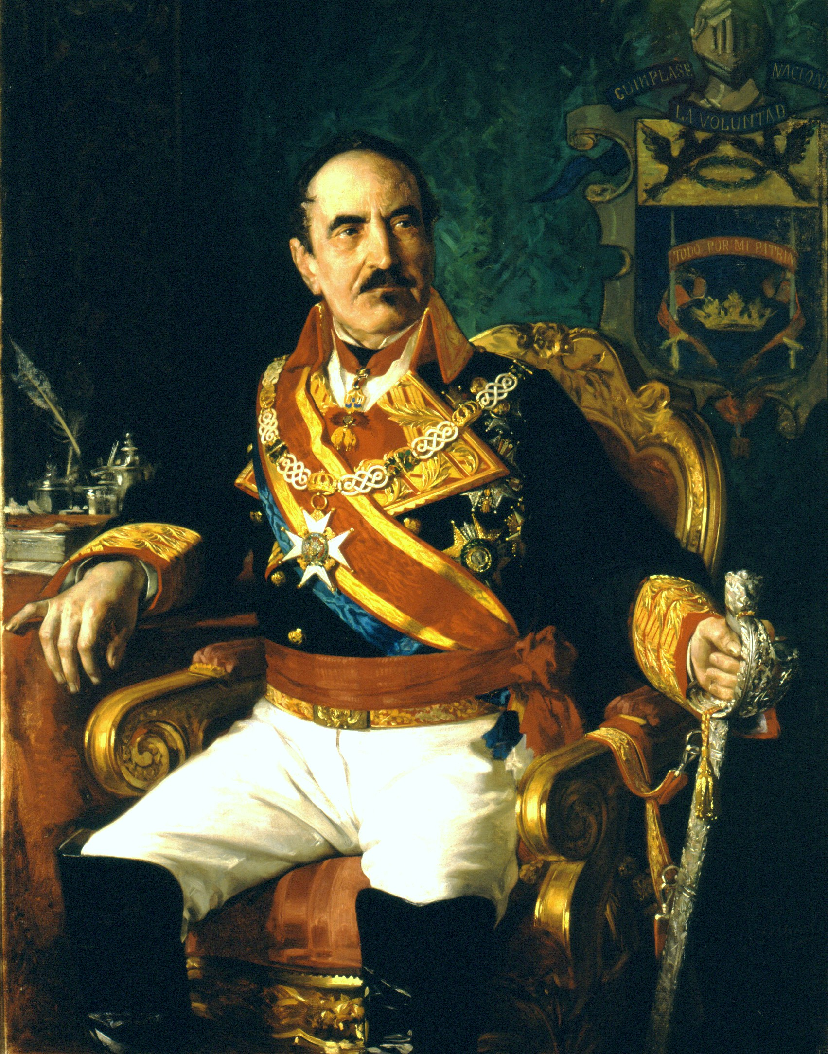 Portrait of Baldomero Espartero, Prince of Vergara, form the picture gallery of the Spanish Congress of Deputies